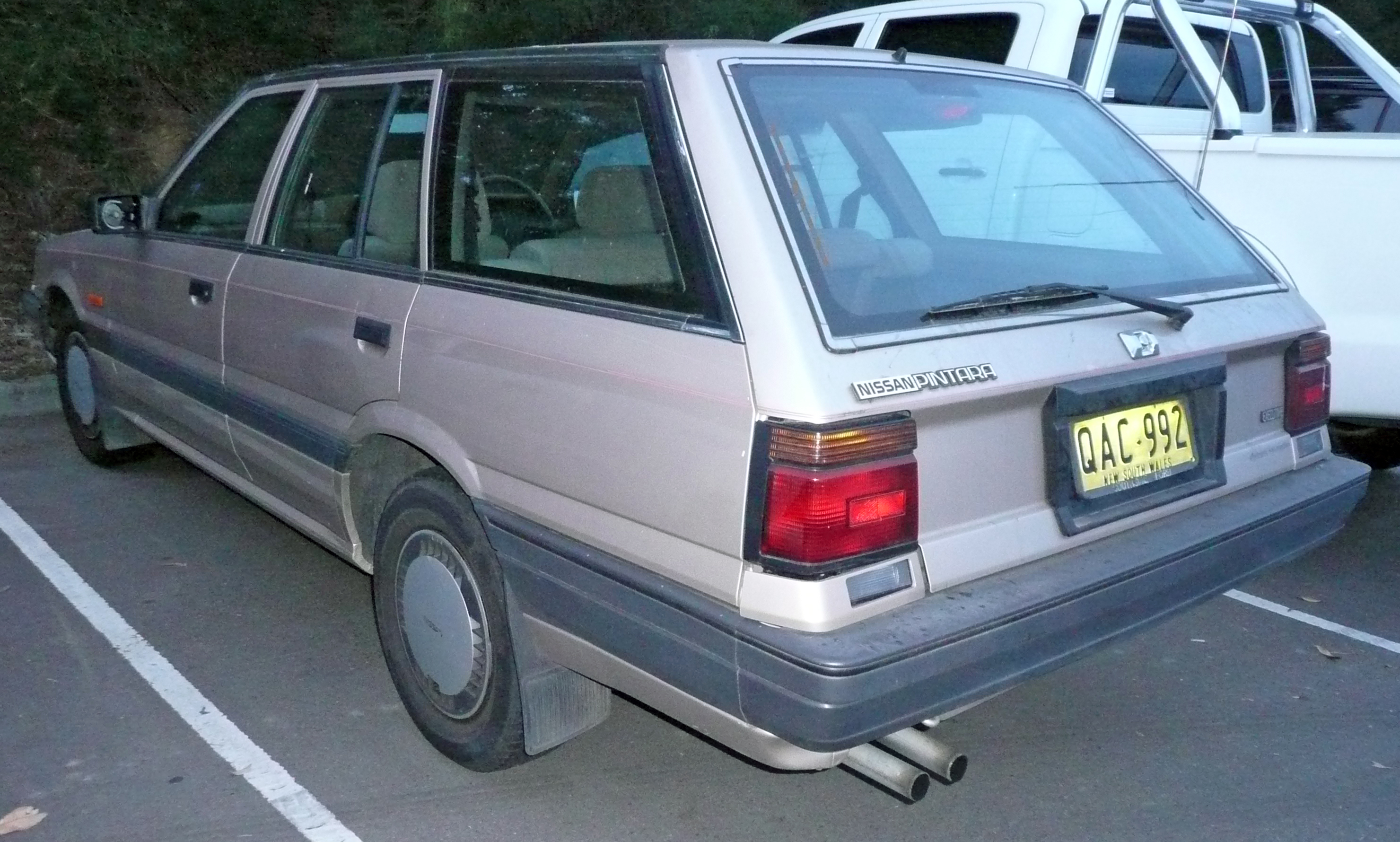 1989 Nissan Pintara (R31 S3) Executive station wagon. Photographed in Kirrawee, New South Wales, Australia.